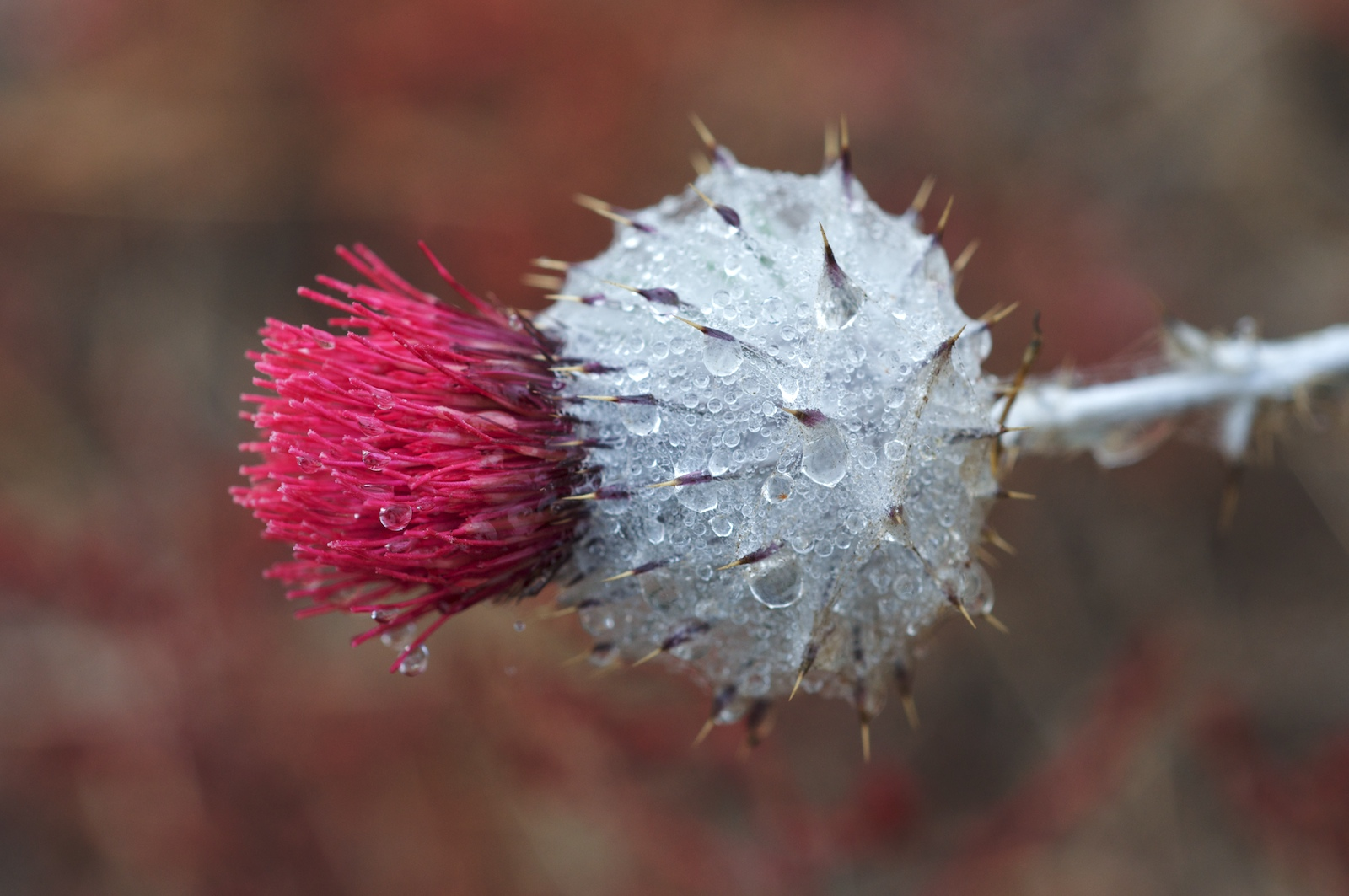 Photographed at Abbott's Lagoon, Pt. Reyes National Seashore, Marin County, California